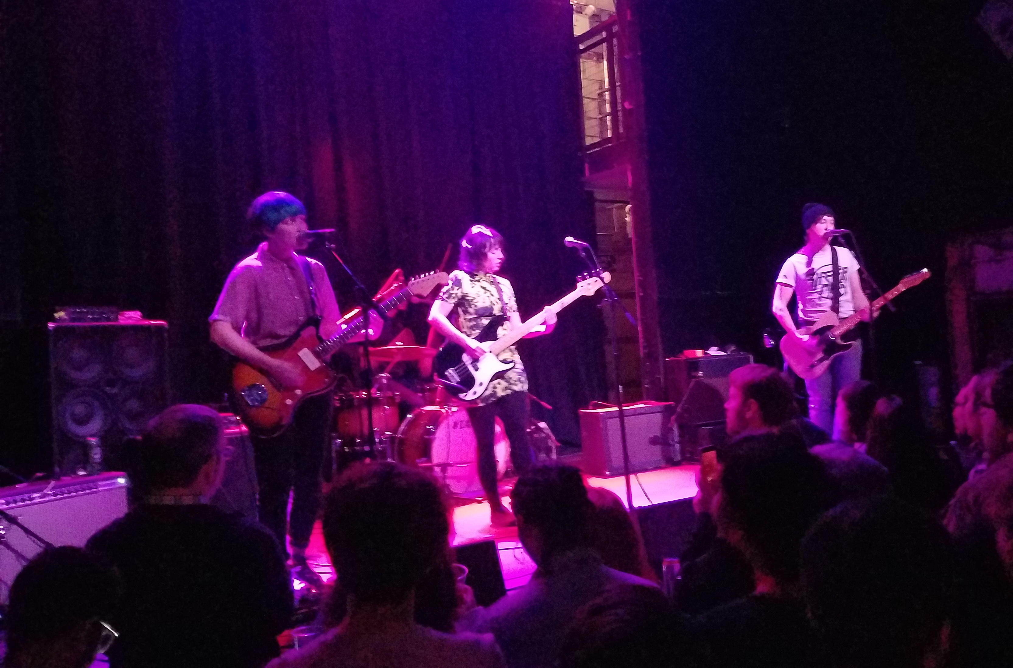 Bad Moves performing at Rough Trade in Brooklyn, New York, on February 16, 2020, as the opener for Cheekface. Left to right: Katie Park, Daoud Tyler-Ameen (behind, at drums), Emma Cleveland, David Combs.